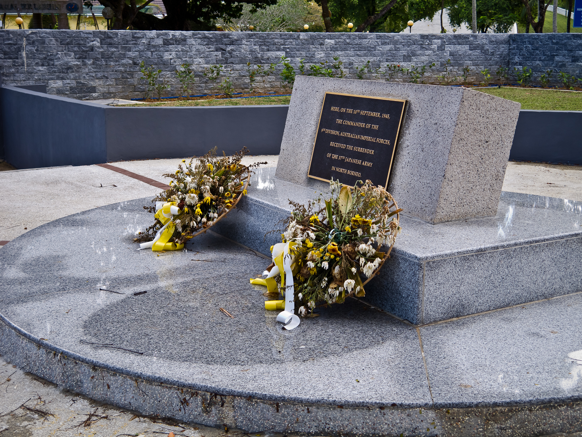 Labuan, Surrender Point. Inscription: HERE, ON THE 10th SEPTEMBER, 1945, THE COMMANDER OF THE 9th DIVISION, AUSTRALIAN IMPERIAL FORCES, RECEIVED THE SURRENDER OF THE 37th JAPANESE ARMY IN NORTH BORNEO.